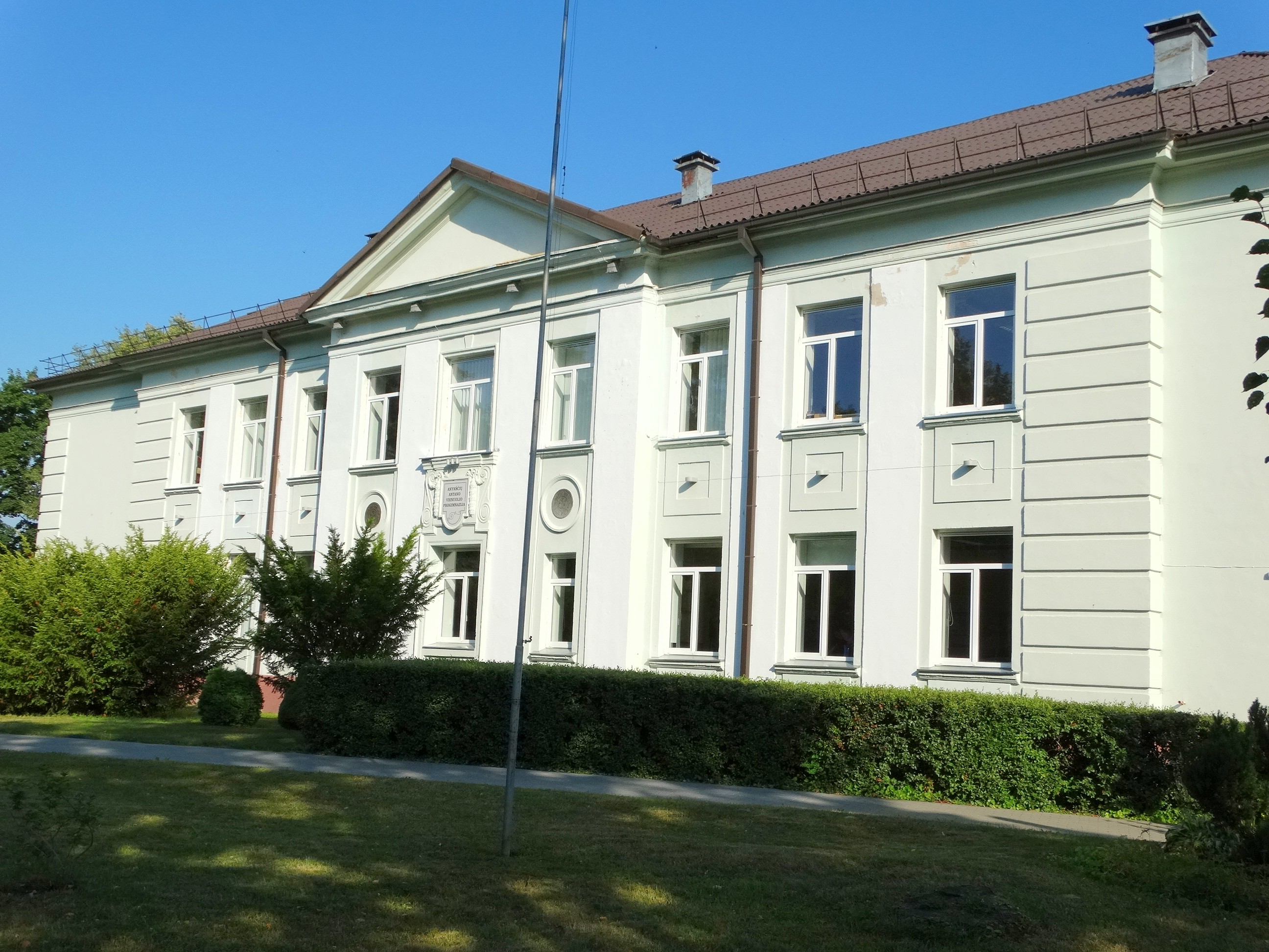 Antanas Vienuolis Progymnasium, Anykščiai, Lithuania